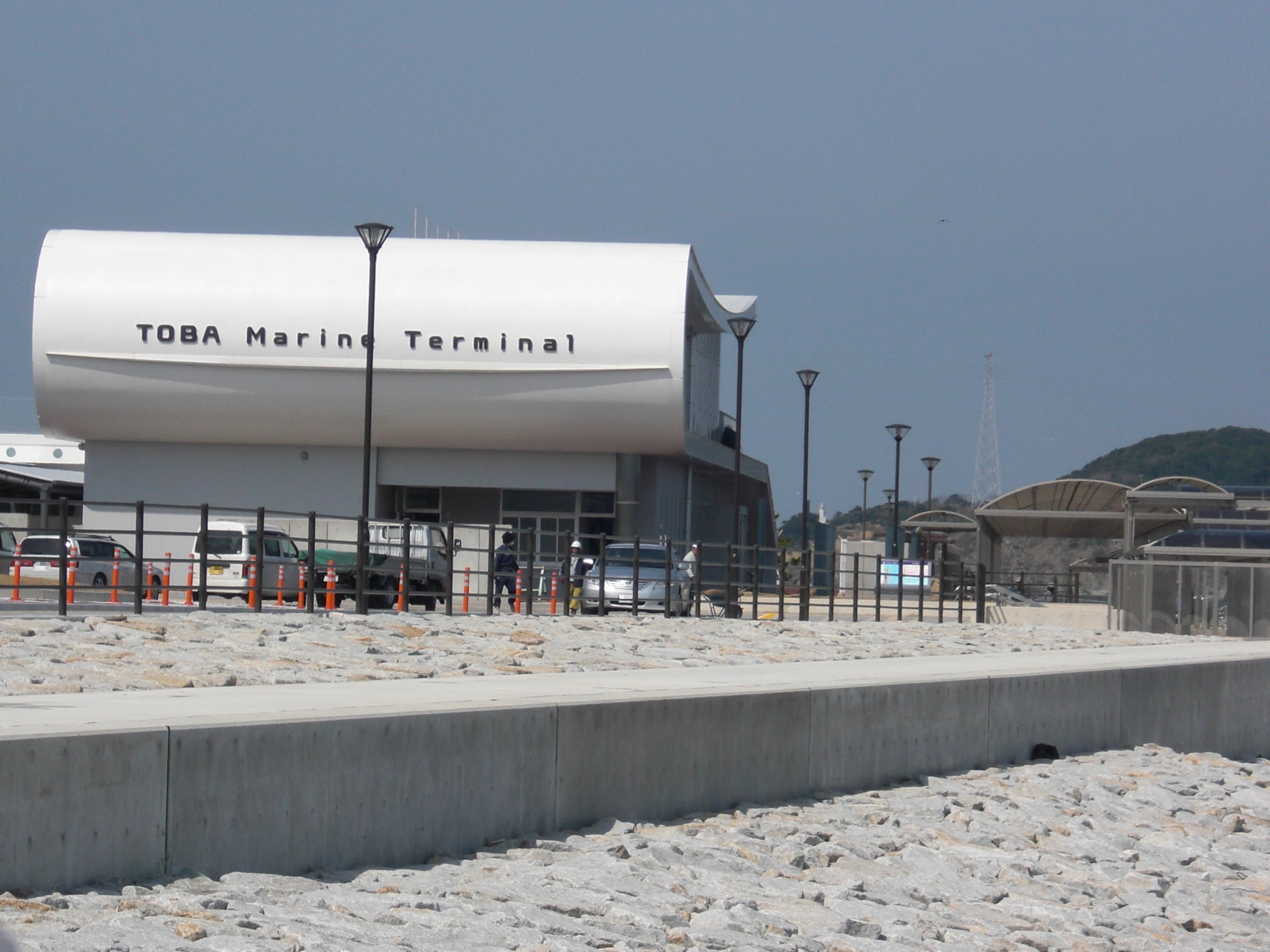 This is the Toba Marine Terminal, which is in Toba port, Mie, Japan.